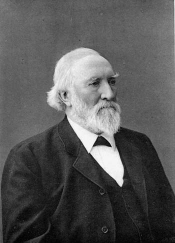 Image of Theodor Magnus Fries from J. Dörfler (1906 - 1907) Botaniker Porträts